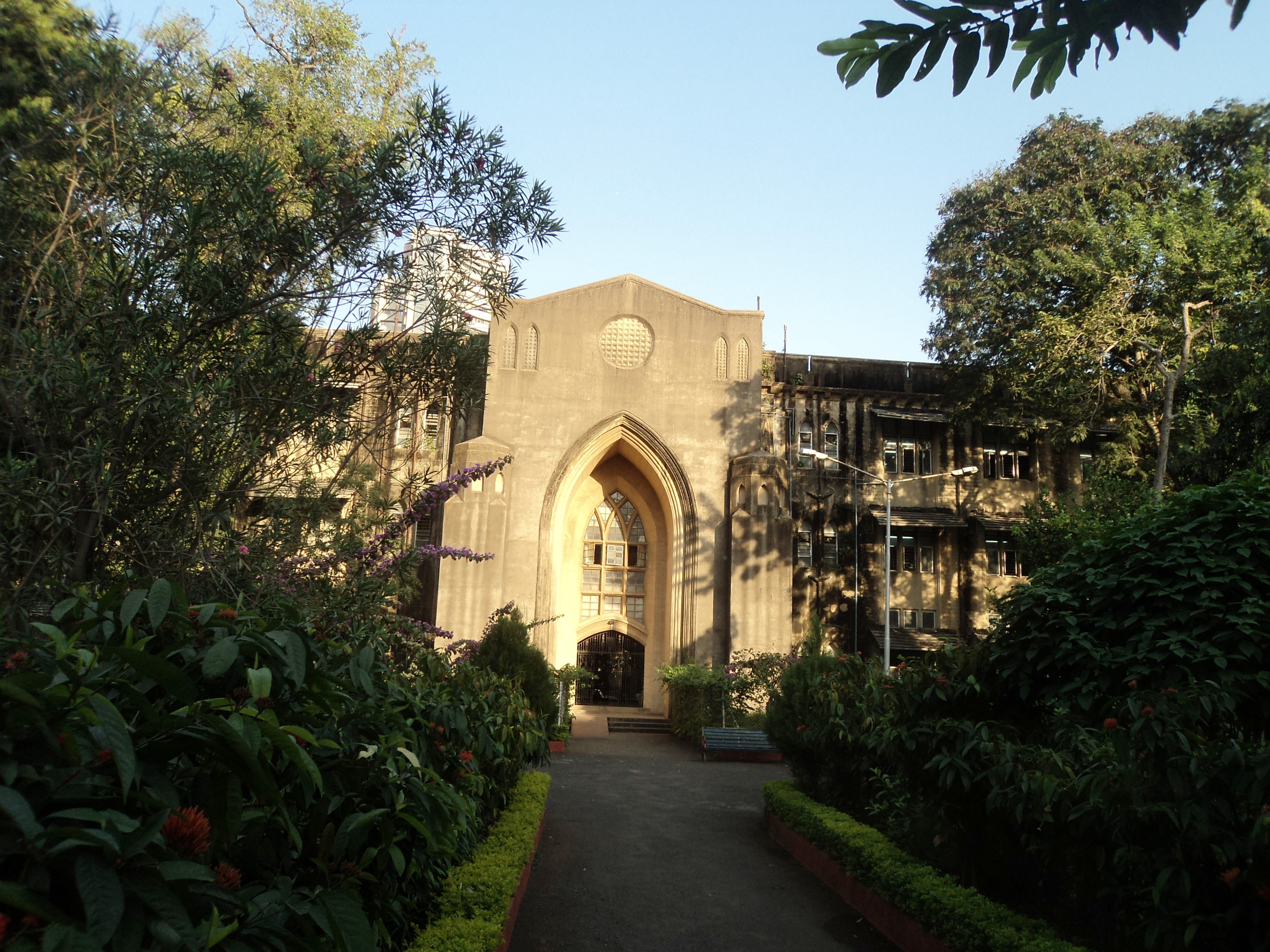 one of the administrative block of Mumbai university